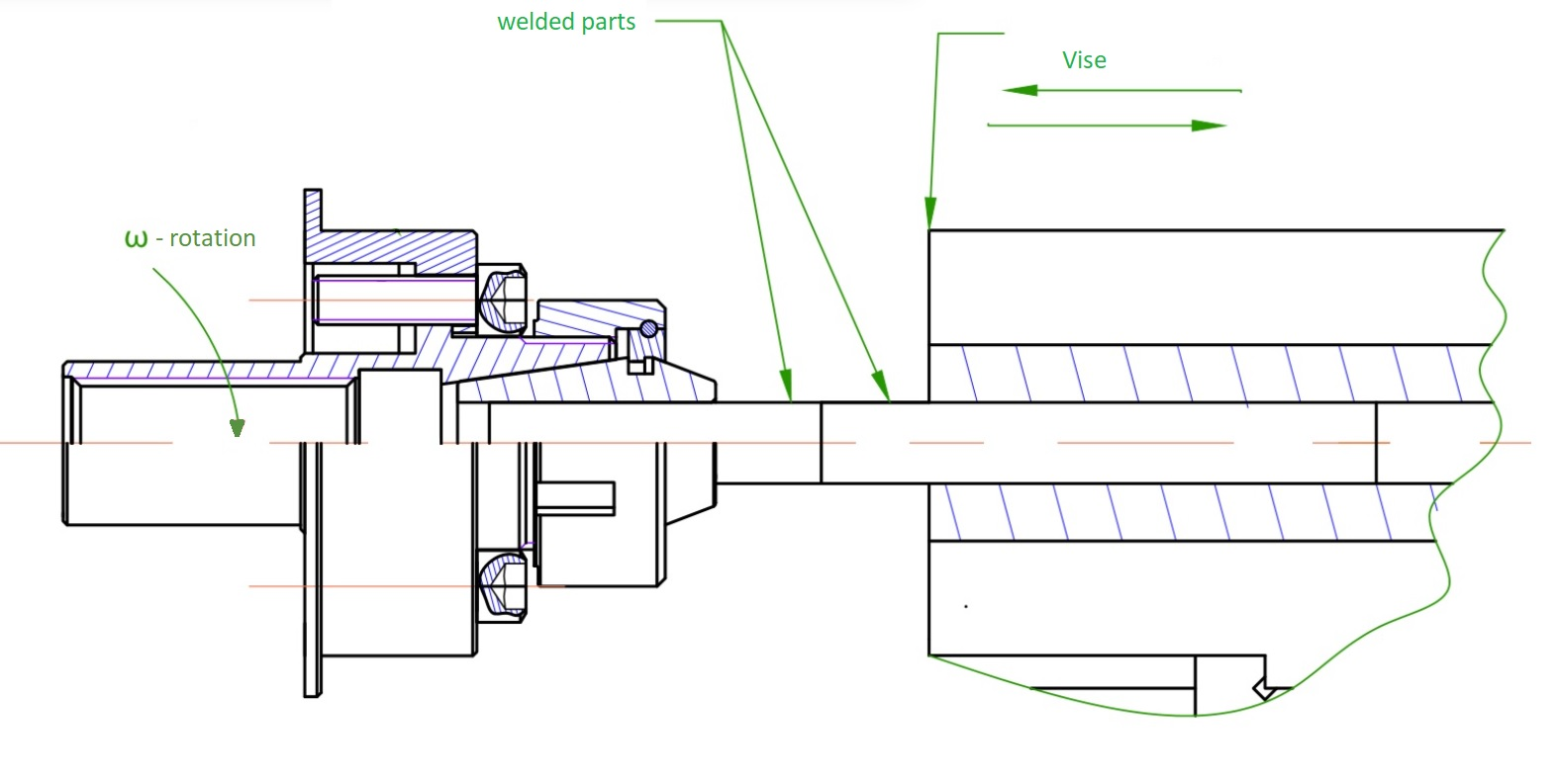 RFW Rotary friction welding handle.